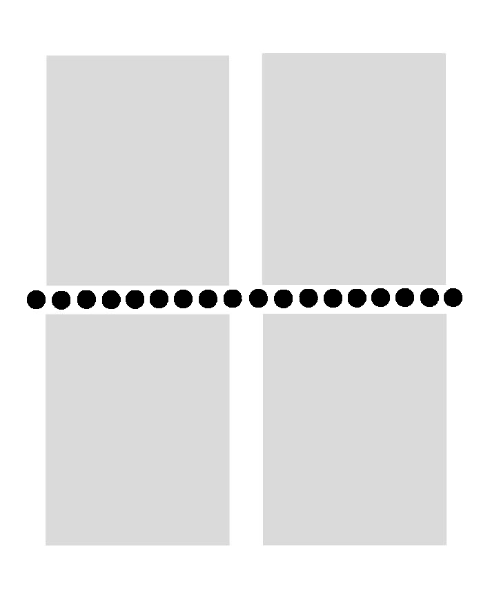 Line perforation: 1st step.